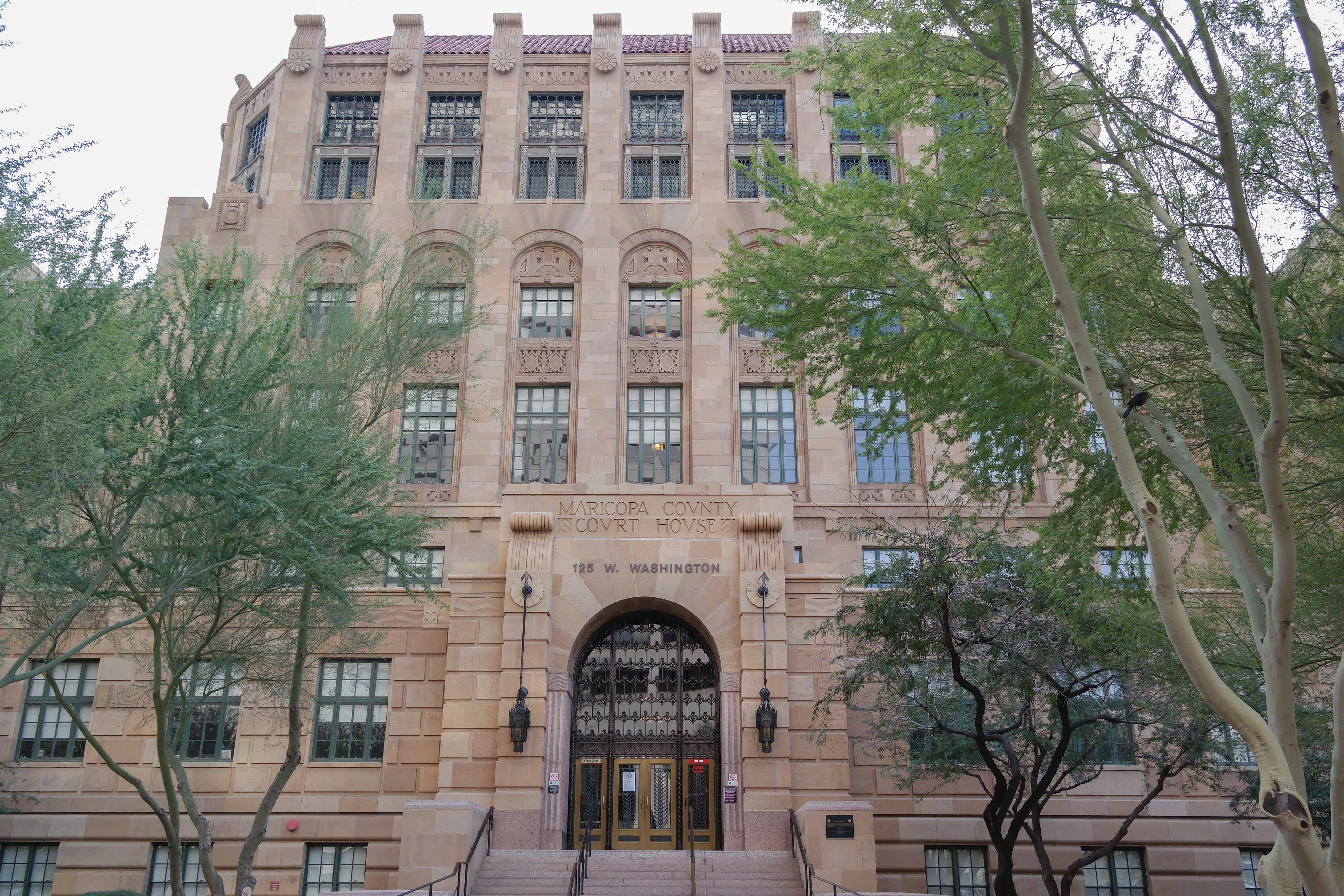 A view of the Maricopa County Courthouse in Phoenix, Arizona